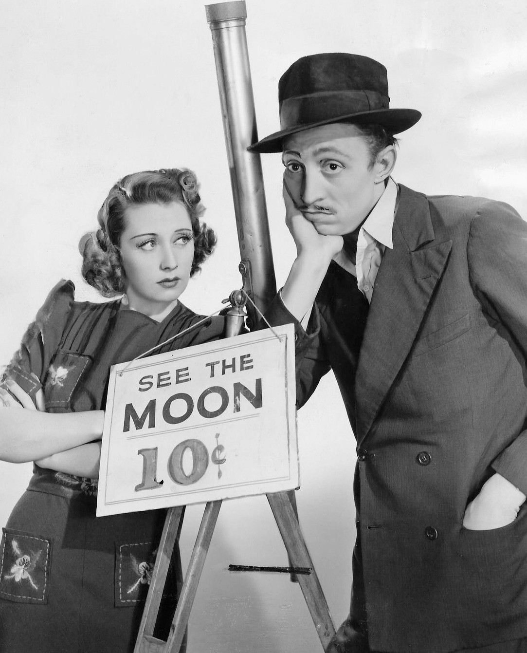 Joan Blondell and Mischa Auer in a scene from the American film The East Side of Heaven (1939).